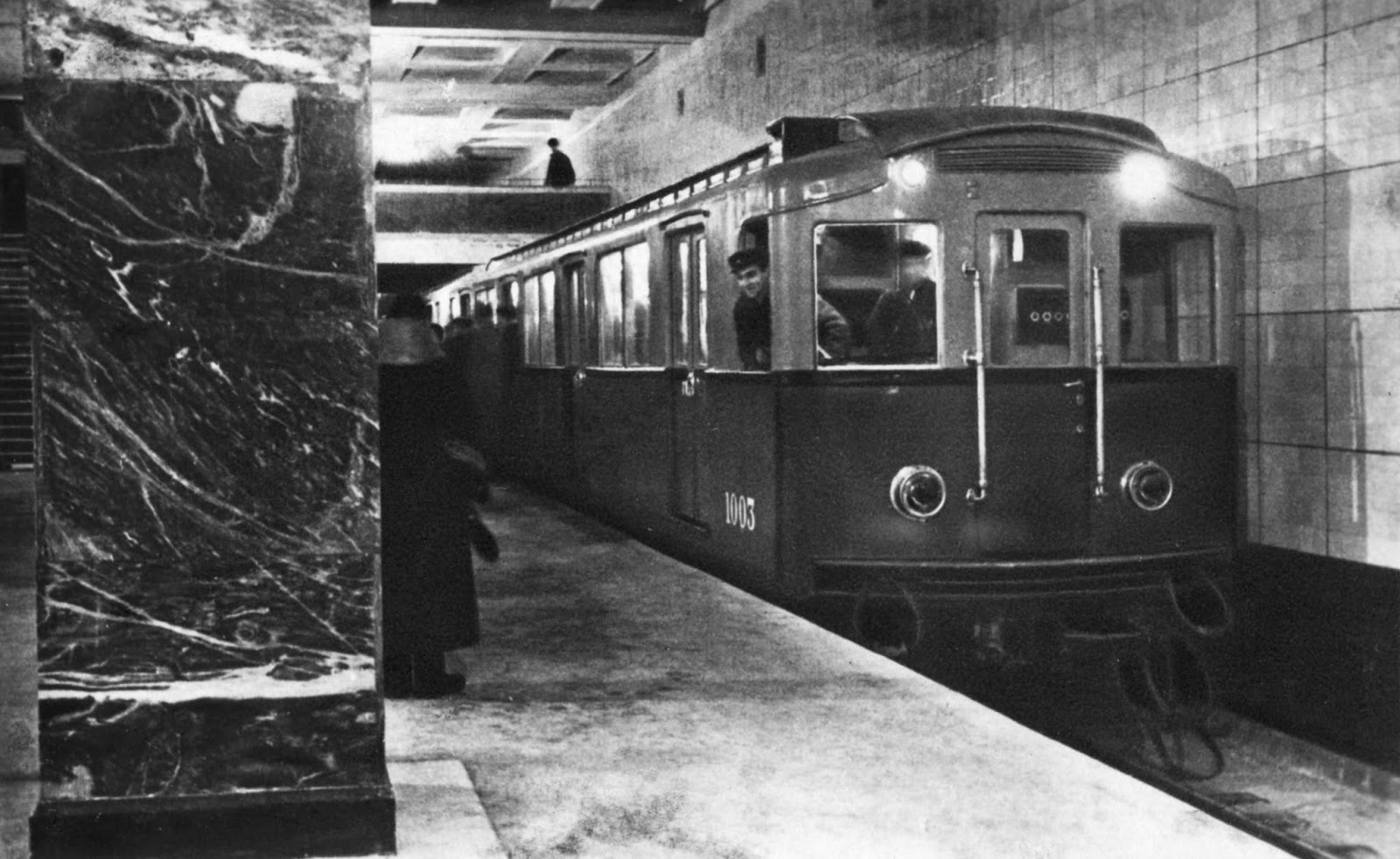 Subway train type A (with head car 1003) at Sokolniki station in Moscow Metro